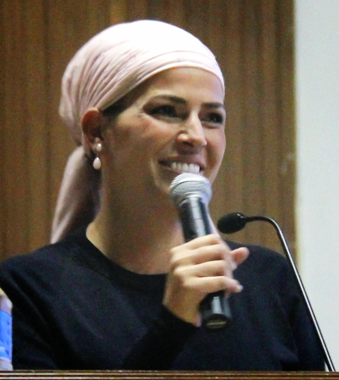 Linor Abargill